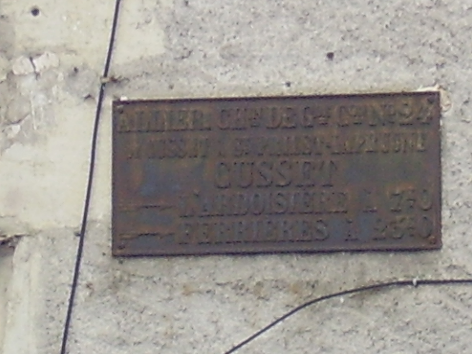 Gc 24 (Chemin de Grande Communication n° 24 de Cusset à Saint-Priest-la-Prugne) (Allier, Auvergne, France) in Cusset.